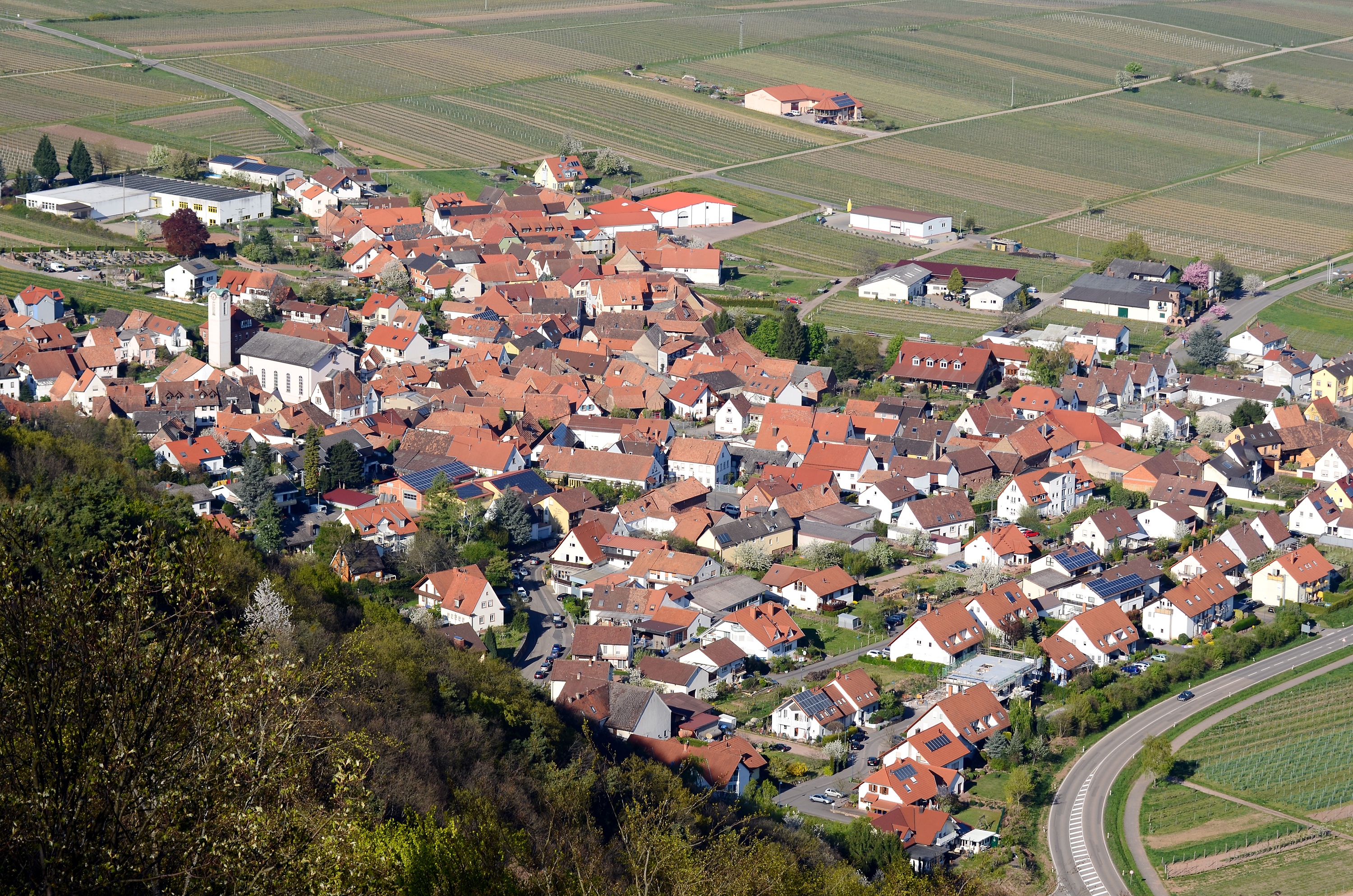 Eschbach